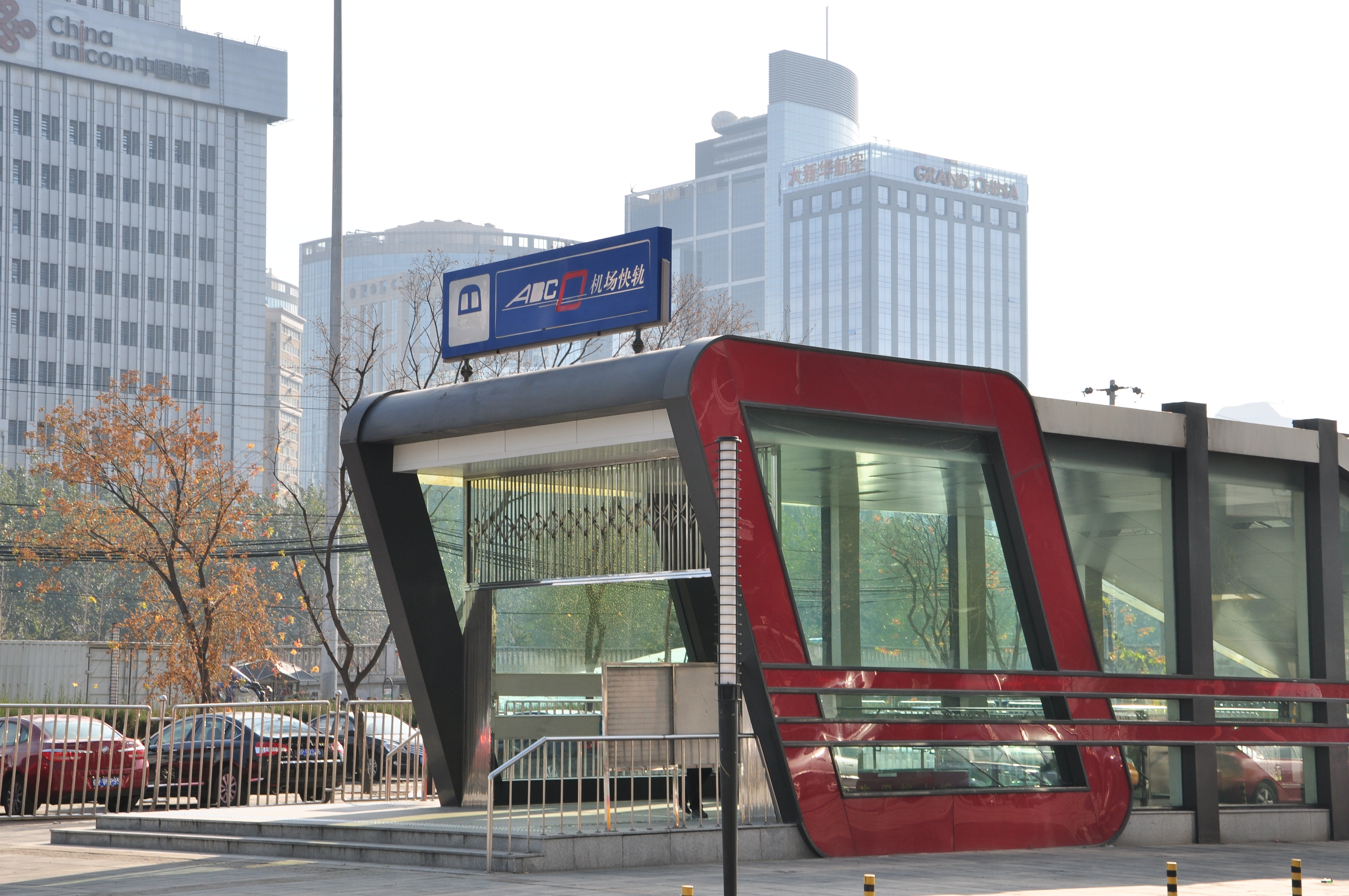 The Entrance of Sanyuanqiao Station, Airport Express, Beijing Subway.